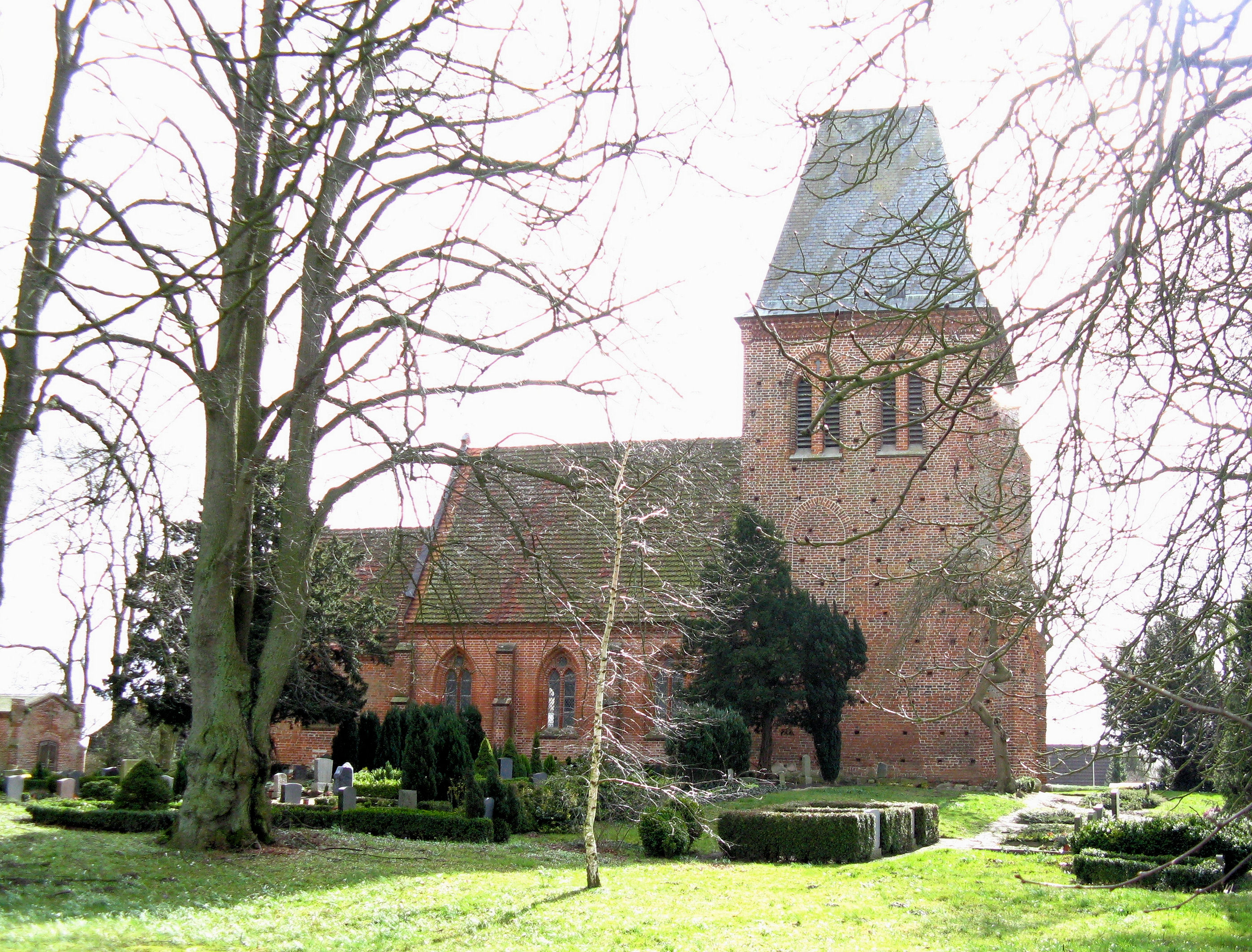 Church in Kirch Stück, district Nordwestmecklenburg, Mecklenburg-Vorpommern, Germany